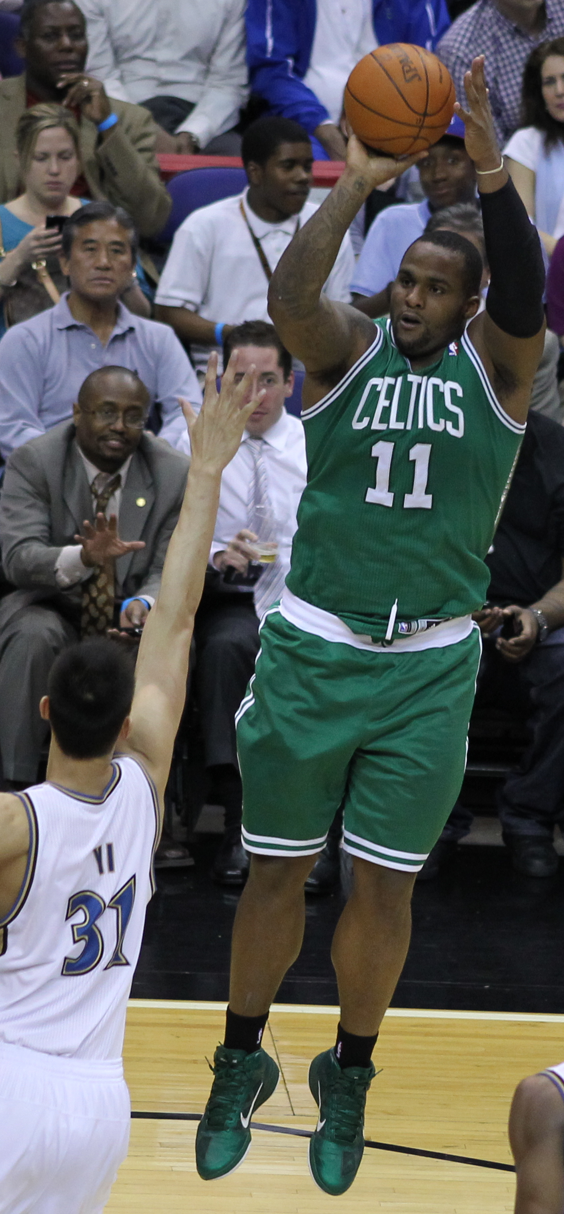 Boston Celtics v/s Washington Wizards April 11, 2011